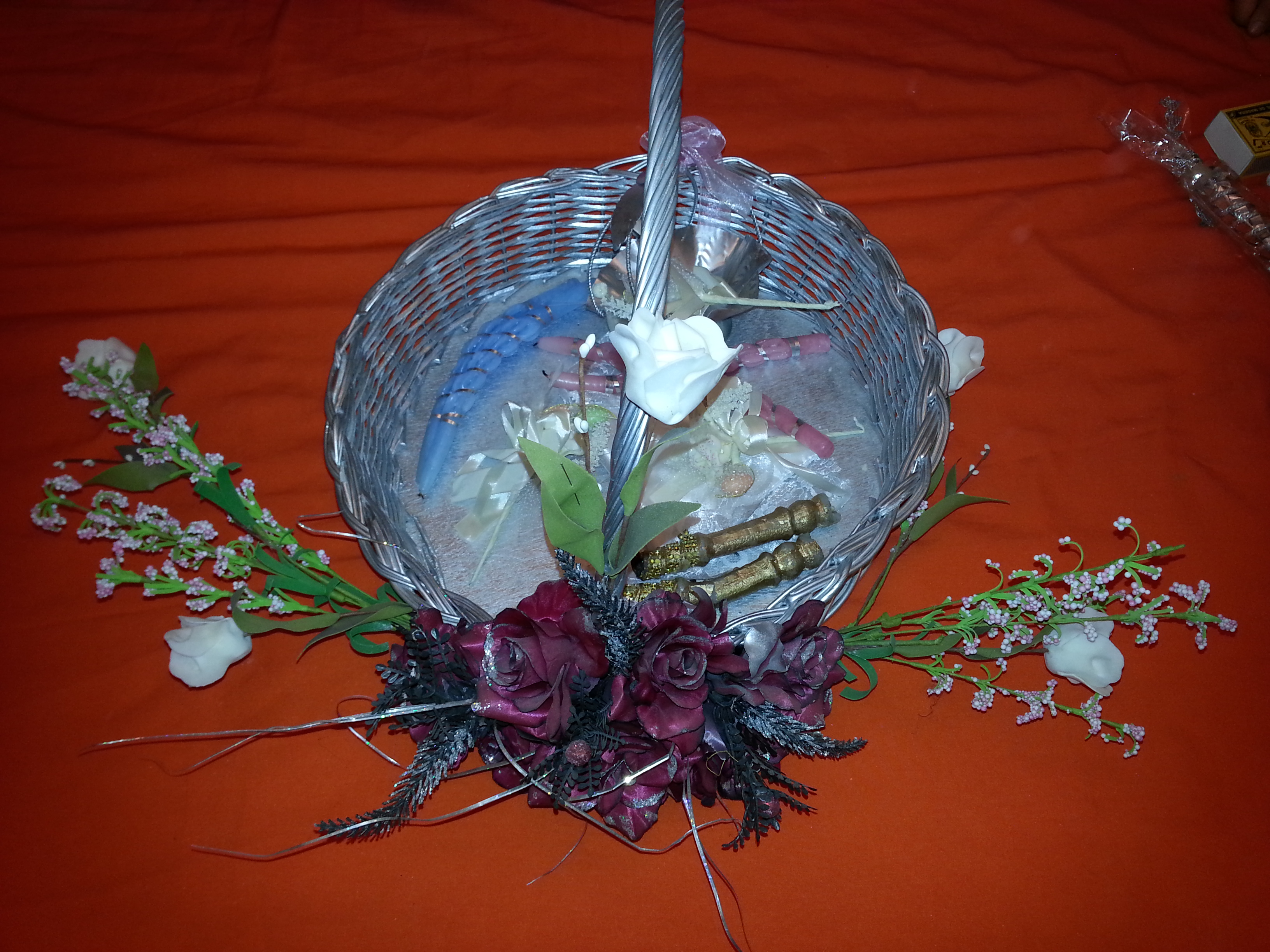 This is an image of Cultural Fashion or Adornment from Algeria